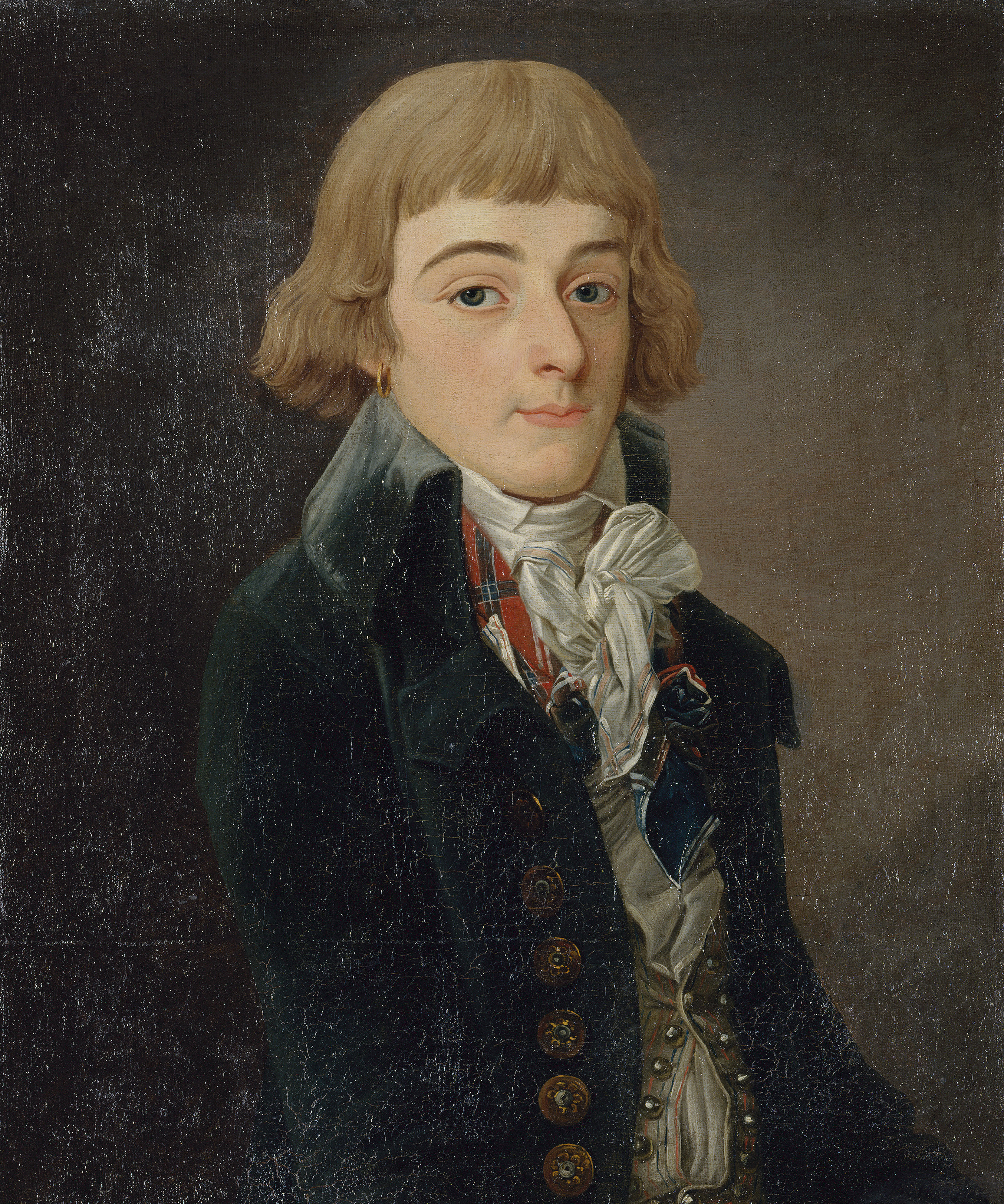 Portrait présumé de Louis-Antoine de Saint-Just (1767-1794), conventionnel.